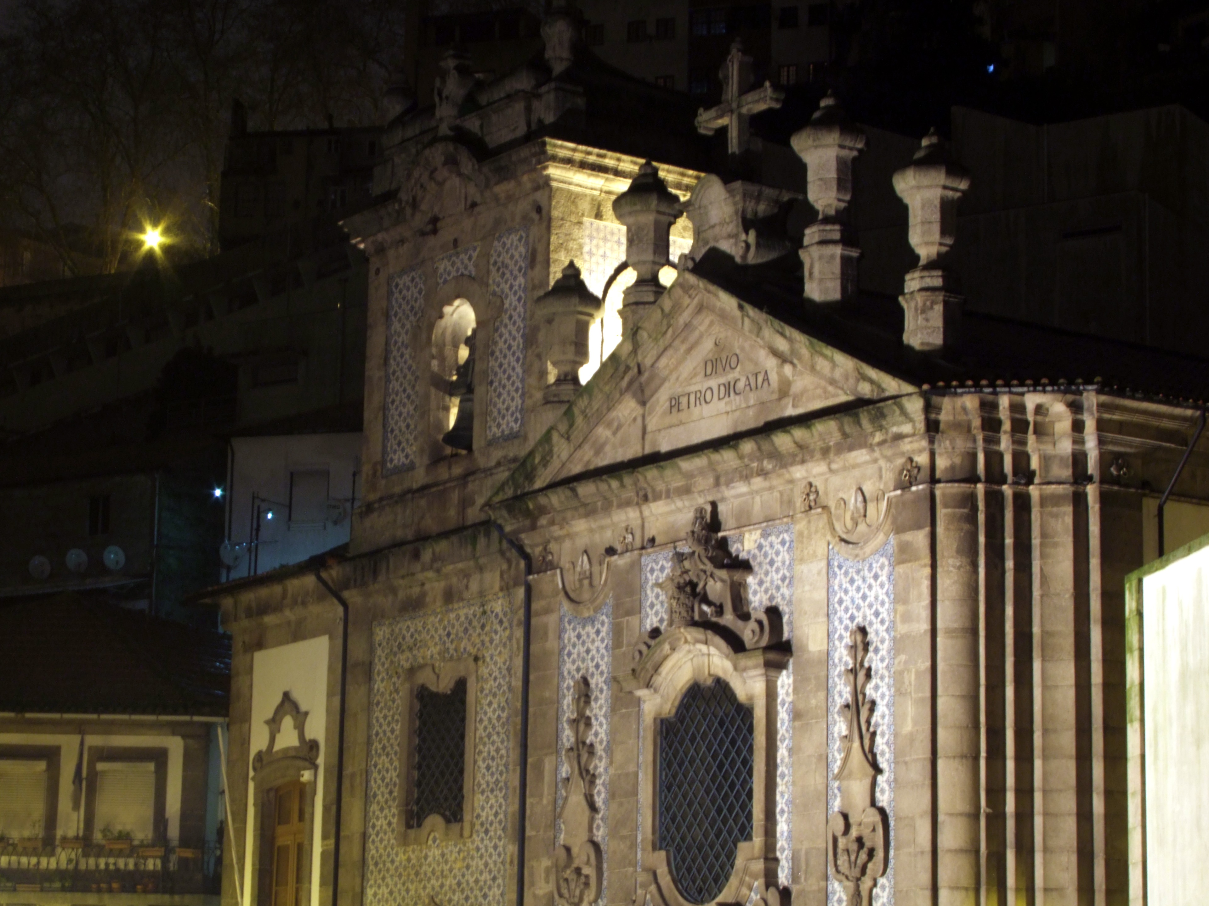 São Pedro de Miragaia Church, Miragaia, Porto, Portugal